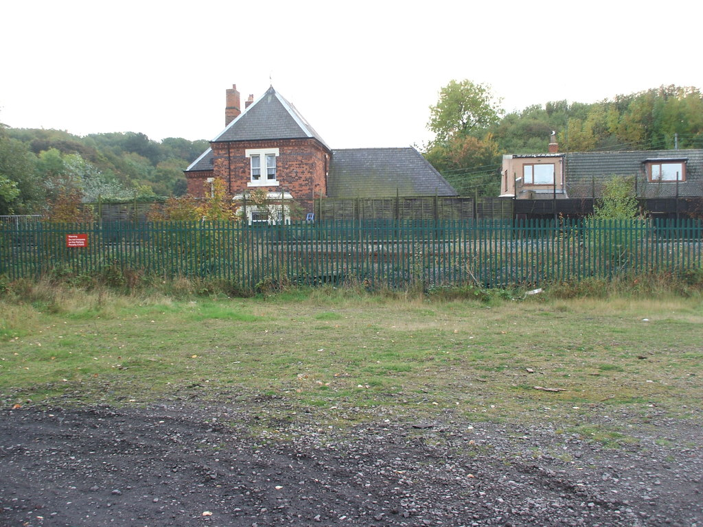 Loftus railway station (site), YorkshireOpened in 1875 by the North Eastern Railway on its line from Redcar to Whitby, this station closed to passengers in 1960. View south west across the tracks from the former goods yard. There used to be a more extensive building than this, to the right. Now only the former stationmaster's house survives.